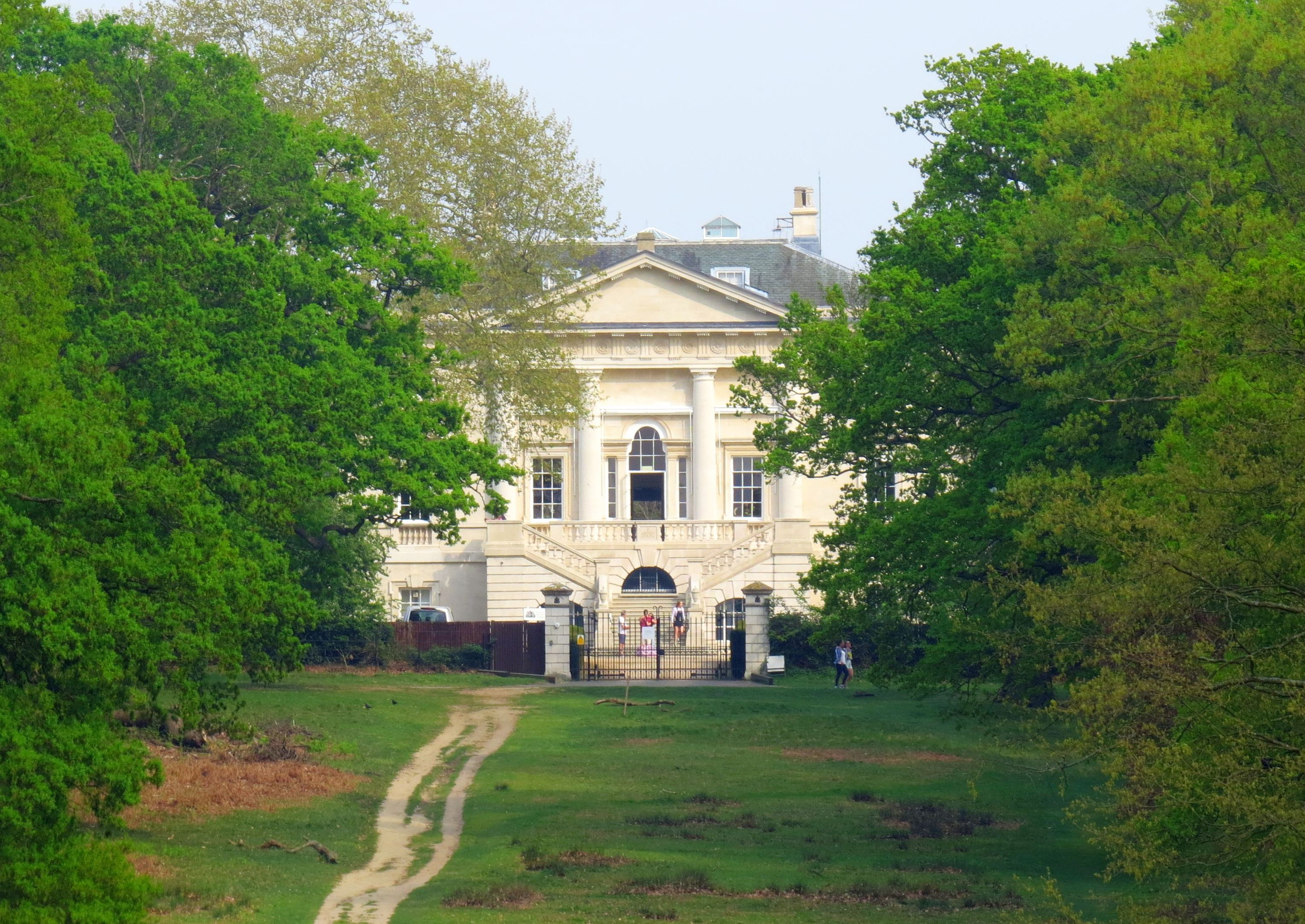 White Lodge in the Richmond Park